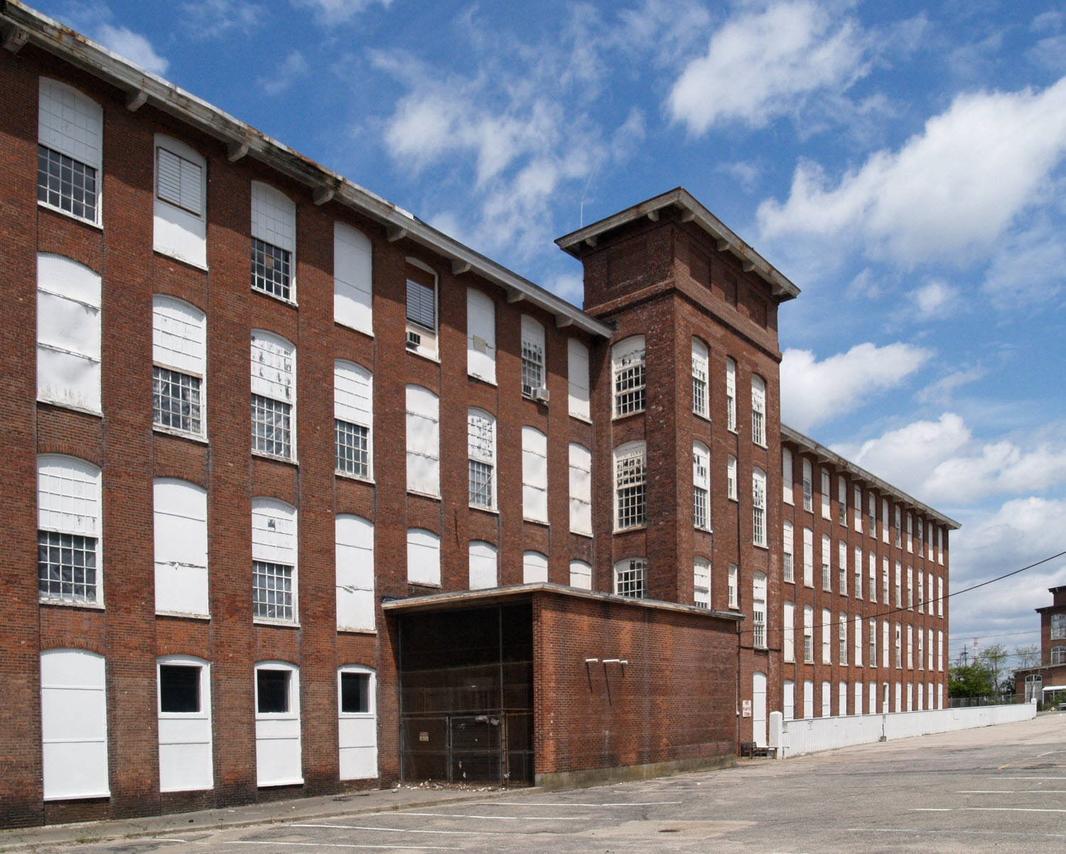 Sagamore Mill Number 1, Fall River, Massachusetts